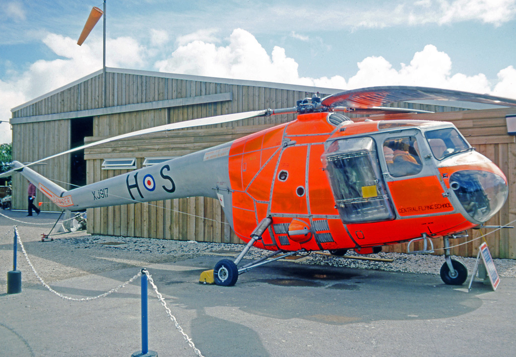 Bristol 171 Sycamore HR.14 XJ917 of the Central Flying School RAF